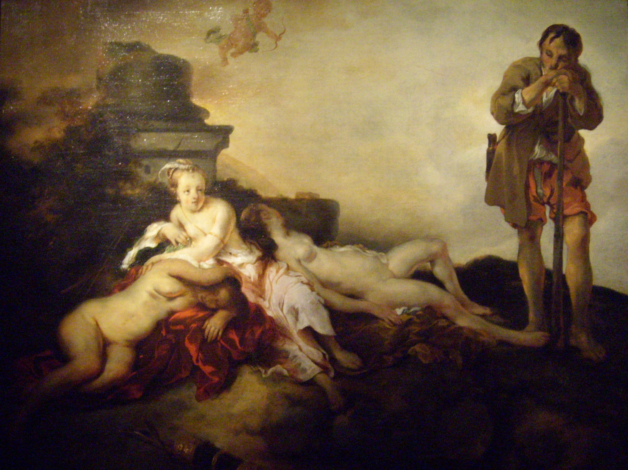 Cimon and Ephigene